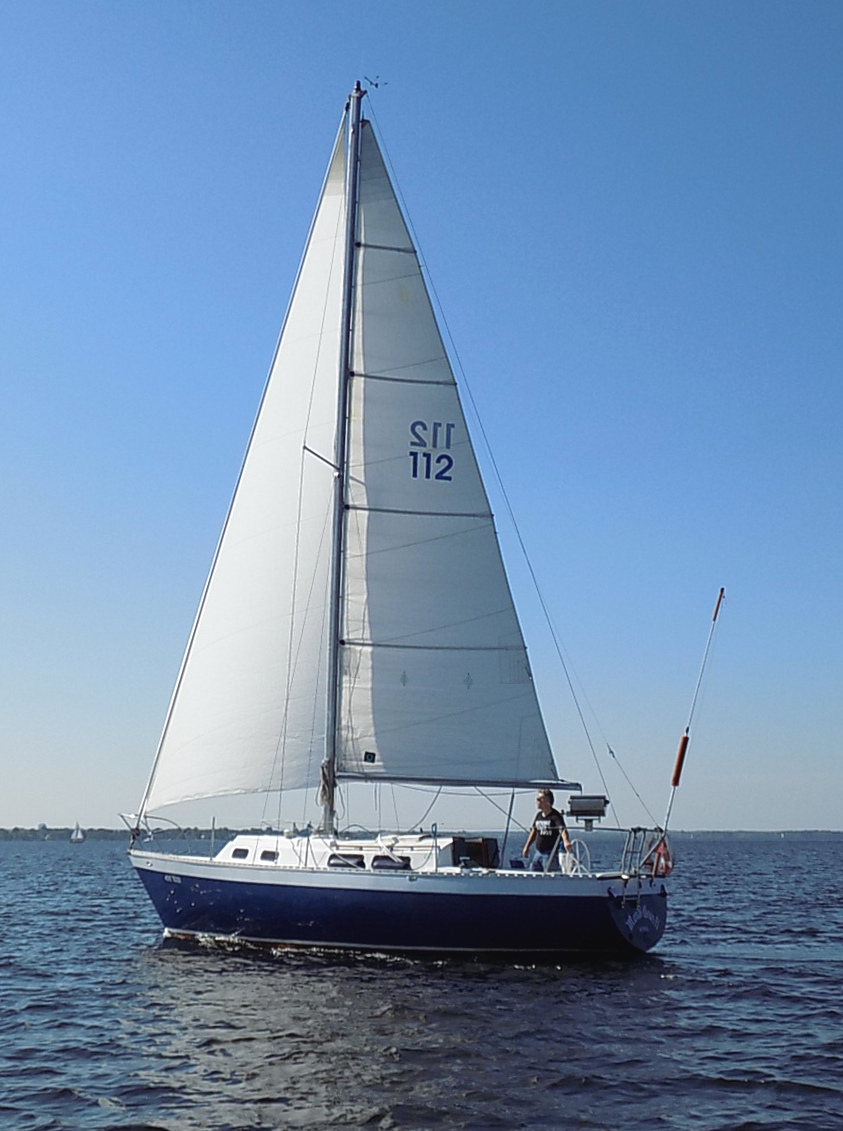 A Grampian 28 sailboat named Mardi Gras II.